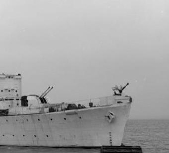 Bow gun of the Hunt-class destroyer, HMS Bleasdale